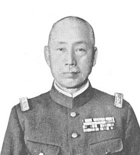 Nobuyoshi Muto Close-up